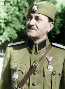 Коста Мушицки